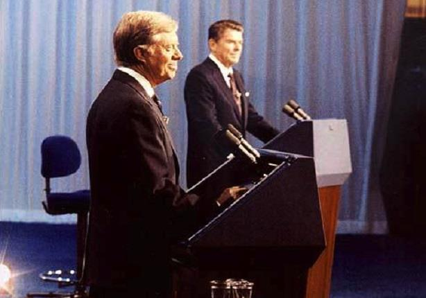 Jimmy Carter Ronald Reagan Presidential Debate 10-28-80